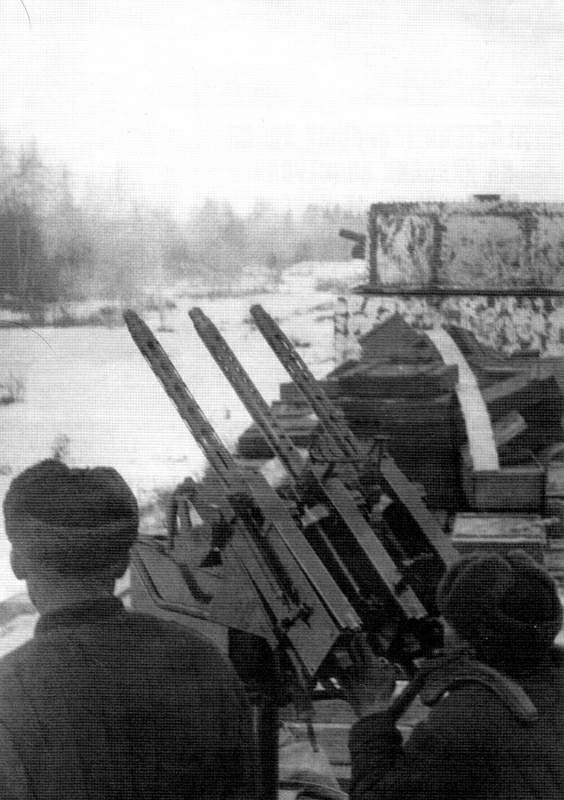 Three PV-1 machine guns on a Russian armored train in WWII